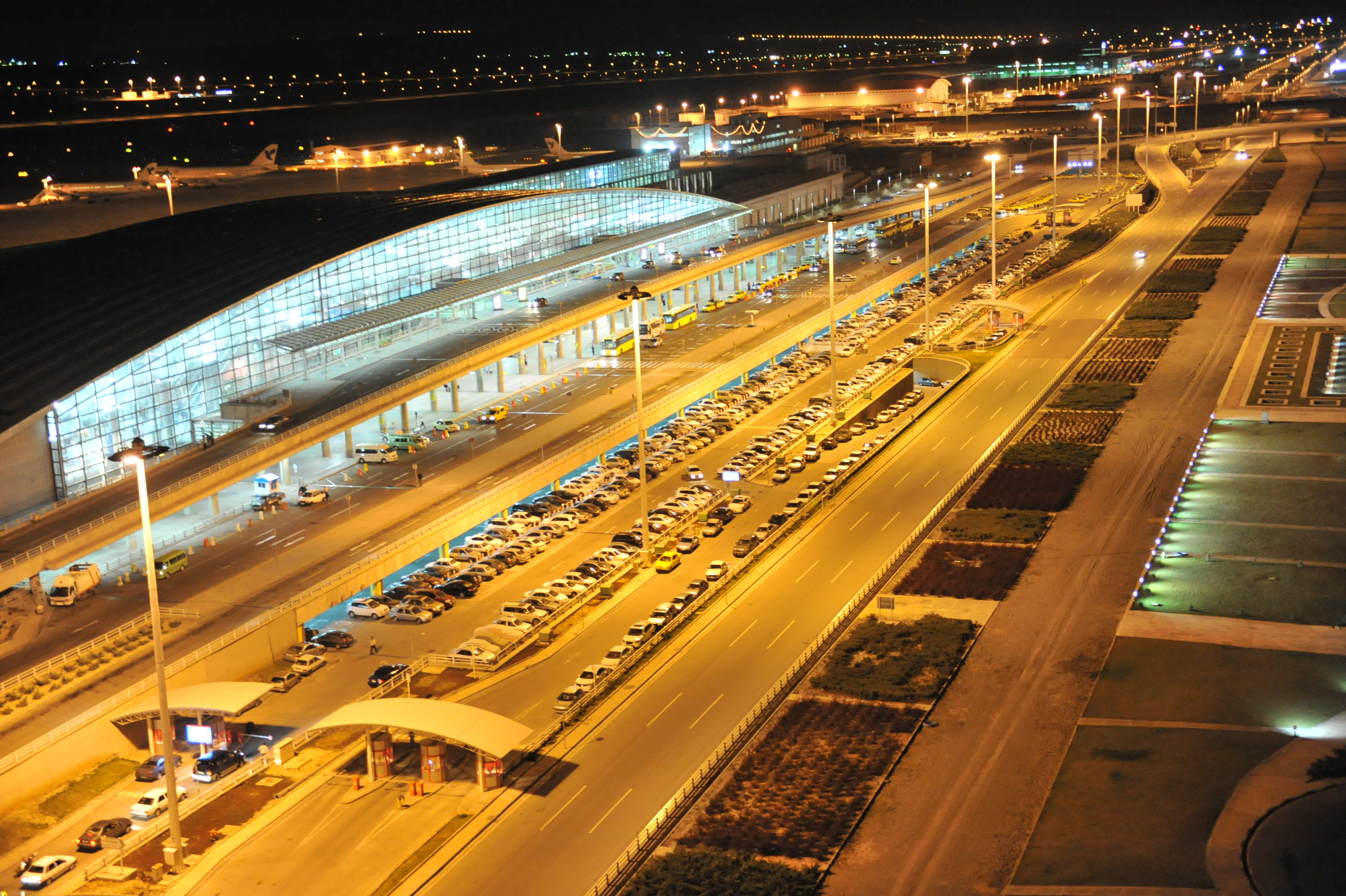 Photograph of Tehran Imam Khomeini International Airport at night.